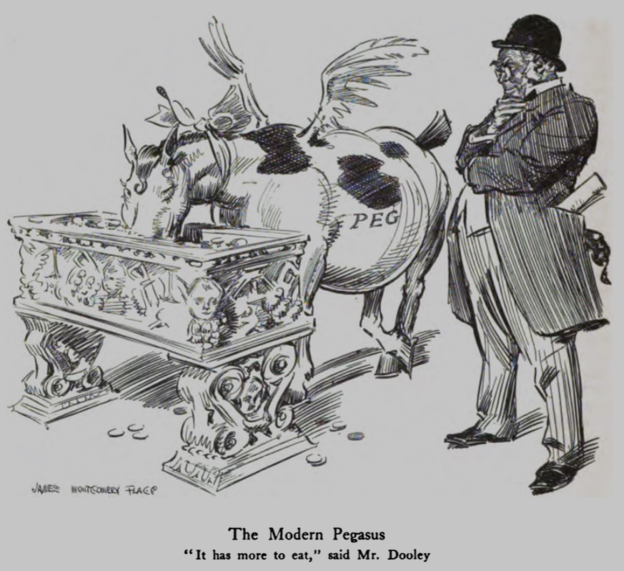 Drawing of the fictional bartender Mr. Dooley viewing the modern Pegasus.